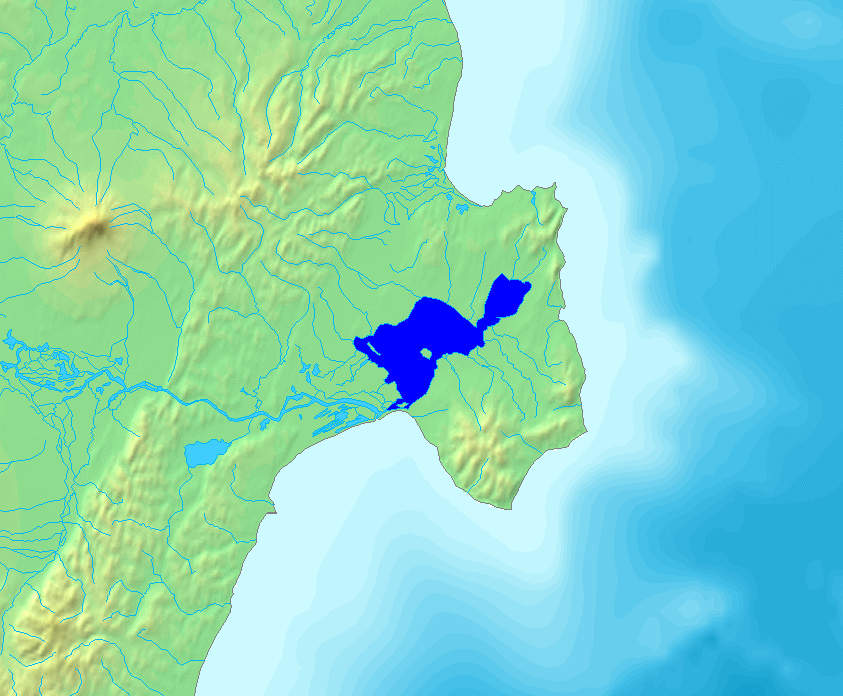 Location of Lake Nerpichye (озеро Нерпичье) on the coast of eastern Kamchatka